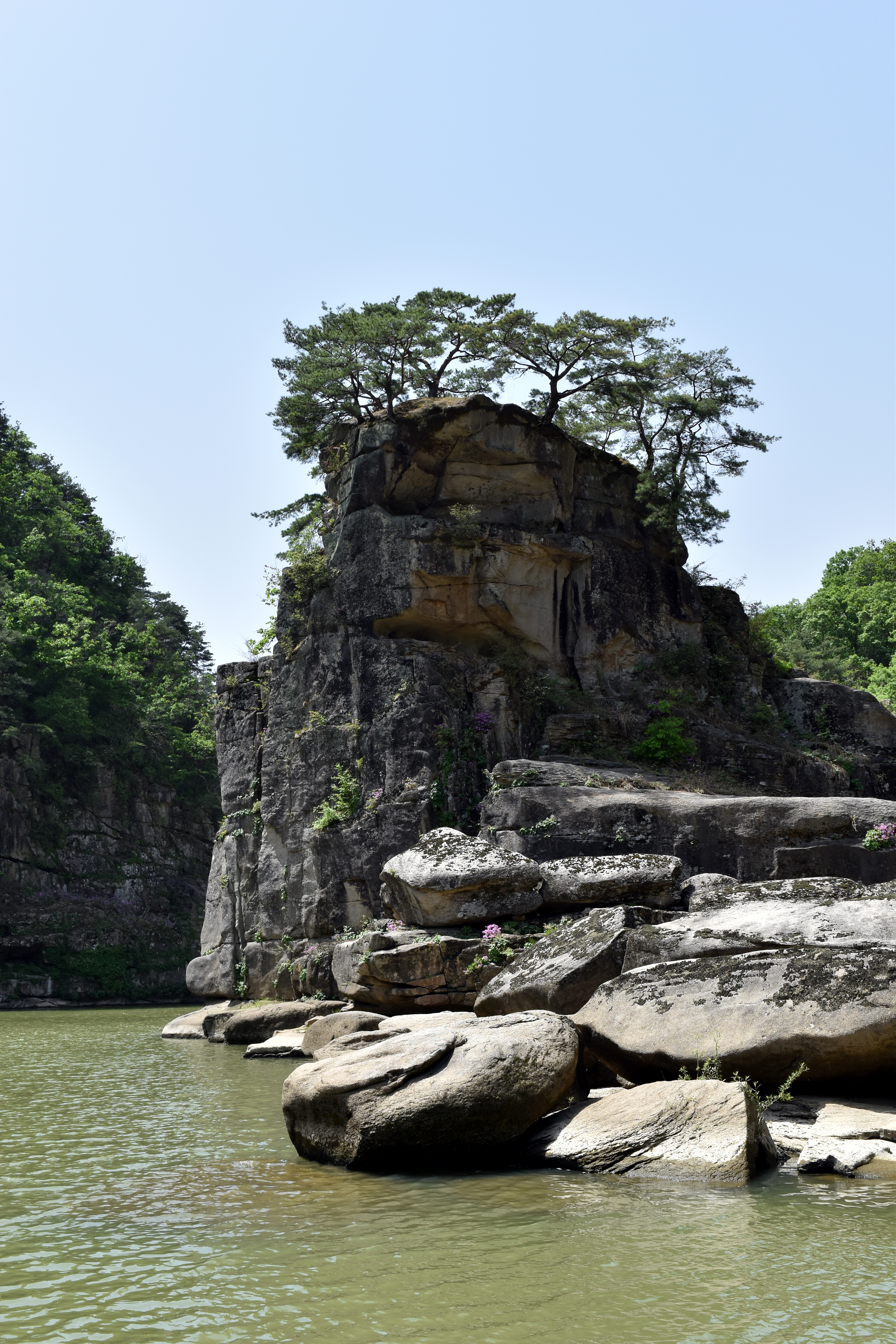 Goseokjeong, a natural tower of granite rock, at Hantan River